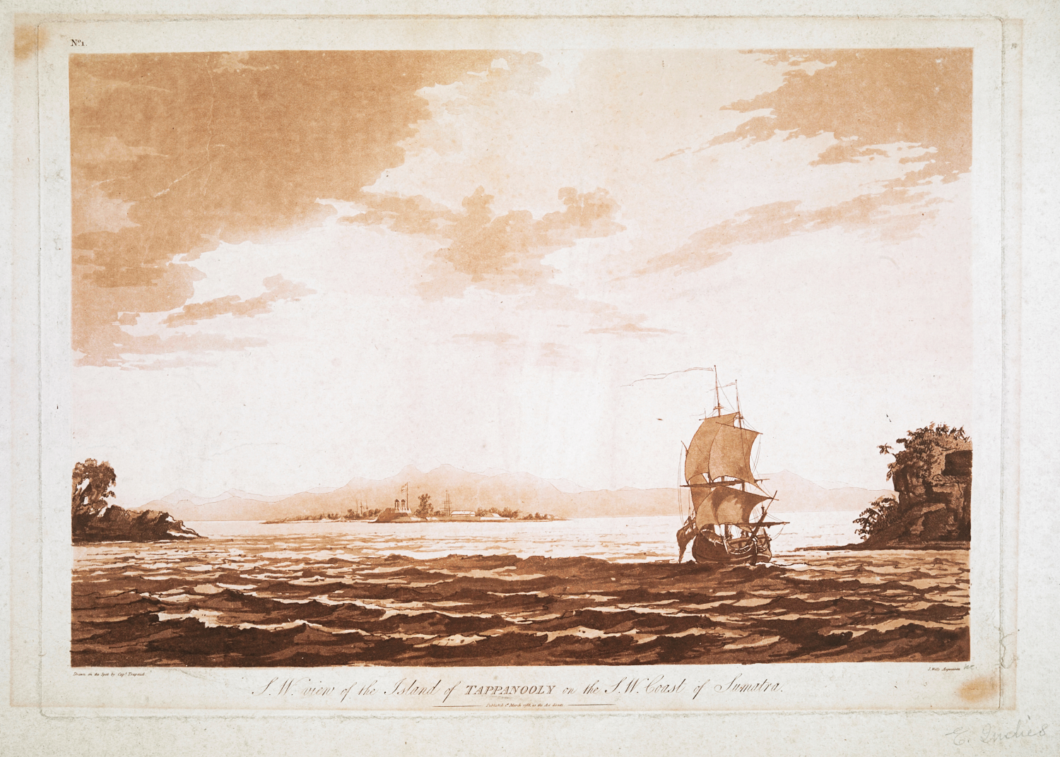 Late 18th century view of the British settlement of Tapanuli on the small island of Punchon Cacheel (also called Tapanuli Island), at the entrance of Tapanuli Bay (also known as Sibolga Bay), Sumatra. Tapanuli (spelled Tappanooly then) was the northernmost of the string of settlements comprising British Bencoolen. Elisha Trapaud, soldier, surveyor, draughtsman and amateur actor who joined East India Company 1776 and who took part in an expedition to survey Sumatra between 1783 and 1785, published in 1788 a book of 20 uncoloured aquatints, of which this one belongs. Inscription: S. W. View of the Island of Tappanooly on the S. W. Coast of Sumatra. [Tappanooly] is on a small island, called Punchong cacheel, in the famous bay of Tappanooly, which is not surpassed, for natural advantages, in many parts of the world. Navigators say that all the navies of Europe might ride there with perfect security, in every weather. (William Marsden, The History of Sumatra, 1783).